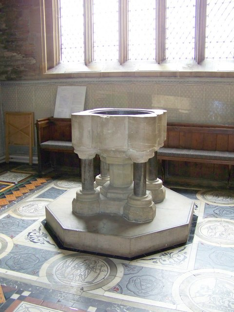 Font, St John the Baptist Church, Frome The Baptistery was built in 1408 as a Chantry Chapel and the font is thirteenth century.